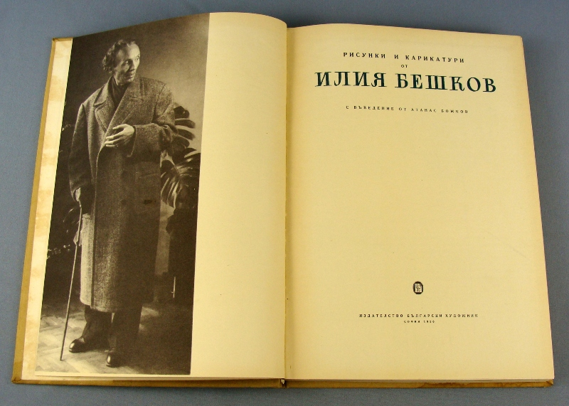 Ilia Beshkov - Drawings and Cartoons